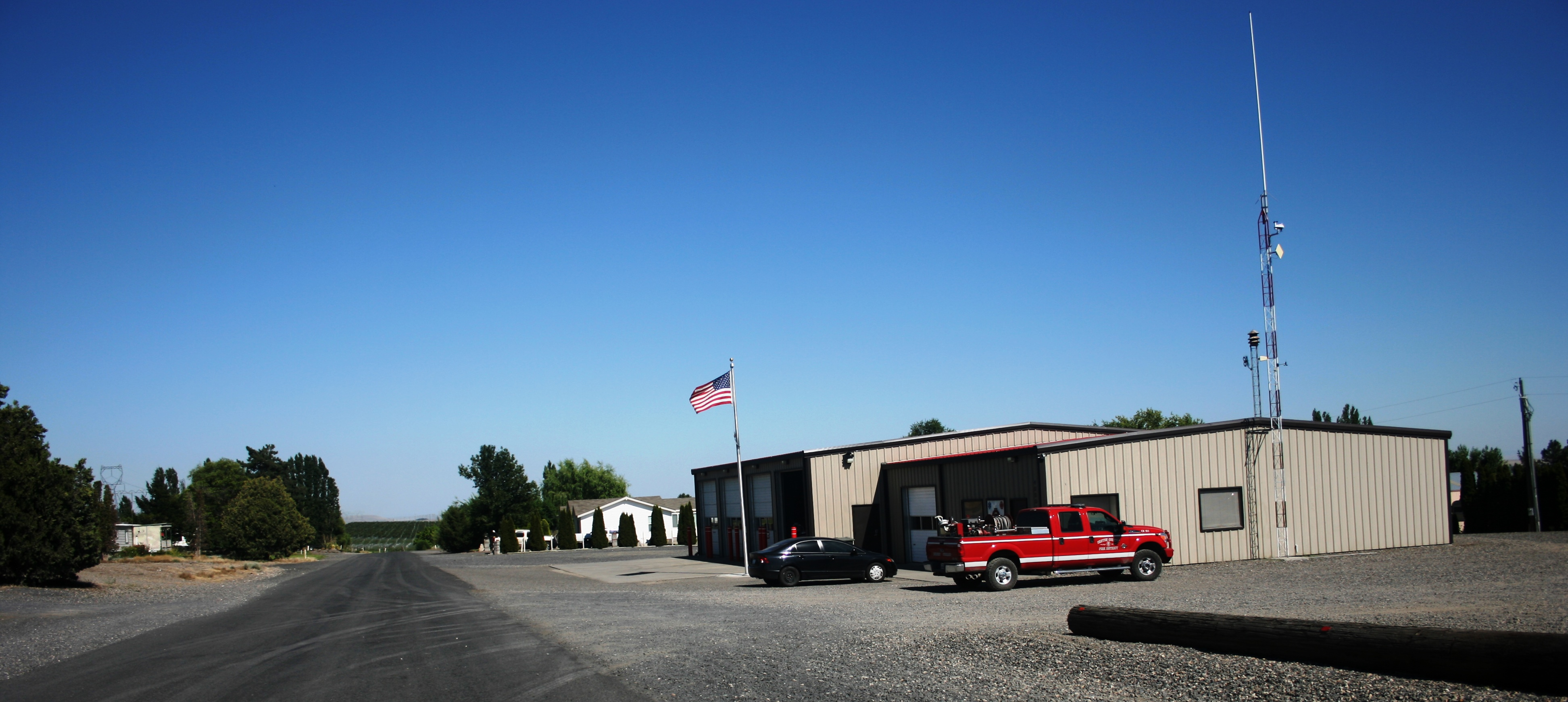 Rural fire department in Paterson. Paterson is an unincorporated area in Benton County, Washington.